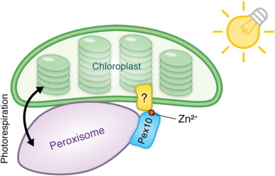 Peroxisome-chloroplast contact site. In Arabidopsis thaliana, upon exposure to light, peroxisomes increase their contact sites with chloroplasts to facilitate the transfer of photorespiration metabolites. During light conditions, peroxisomes also change their morphology to an elliptical shape potentially to increase the area and strength of the contacts. The mechanism for tethering is through the Zn RING finger of Pex10 and an unknown counterpart on the chloroplast.